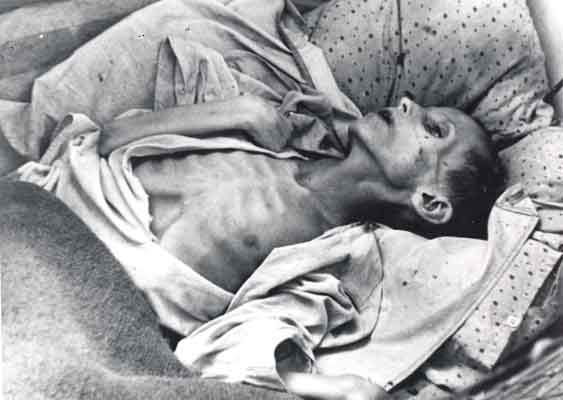 1920s Russia Famine scene -from films was a showing in London on 19 January 1922, depicting living conditions in the Volga region brought back from Russia by the Norwegian Fridtjof Nansen Also used under labels "Ukrainian Famine 1932-33 Victim" in some some post WWII publications ]